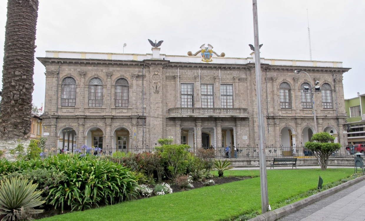 City of Latacunga, City Hall (Municipio)